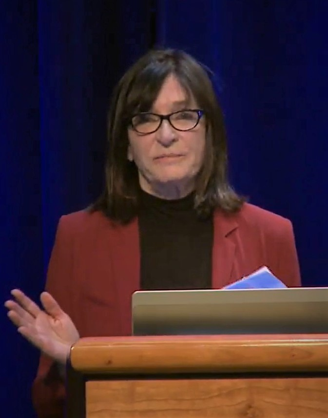 Cognitive Aging Summit III | Dr. Michela Gallagher | Contributions of Neurocognitive Aging.. Dr. Michela Gallagher, Johns Hopkins University, presents on the neurobiological bases that contribute to individual outcomes at older ages in rats.